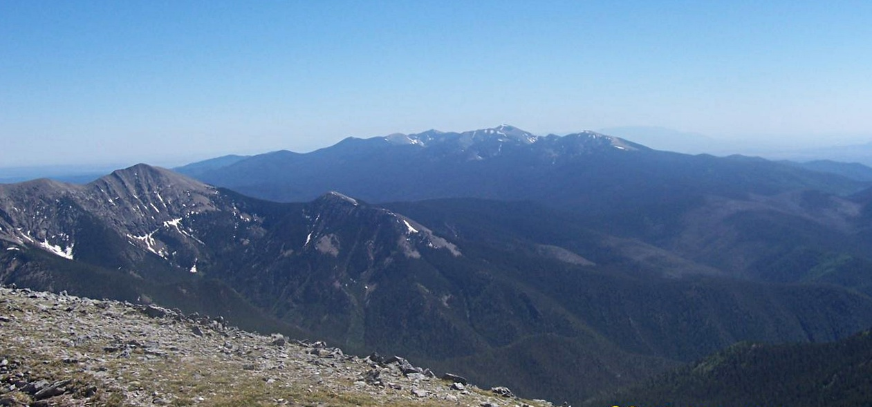 Pecos Baldy (foreground, left) and Santa Fe Baldy, seen from Truchas Peak — the Pecos Wilderness area, New Mexico. In the Sangre de Cristo Mountains and Santa Fe National Forest.